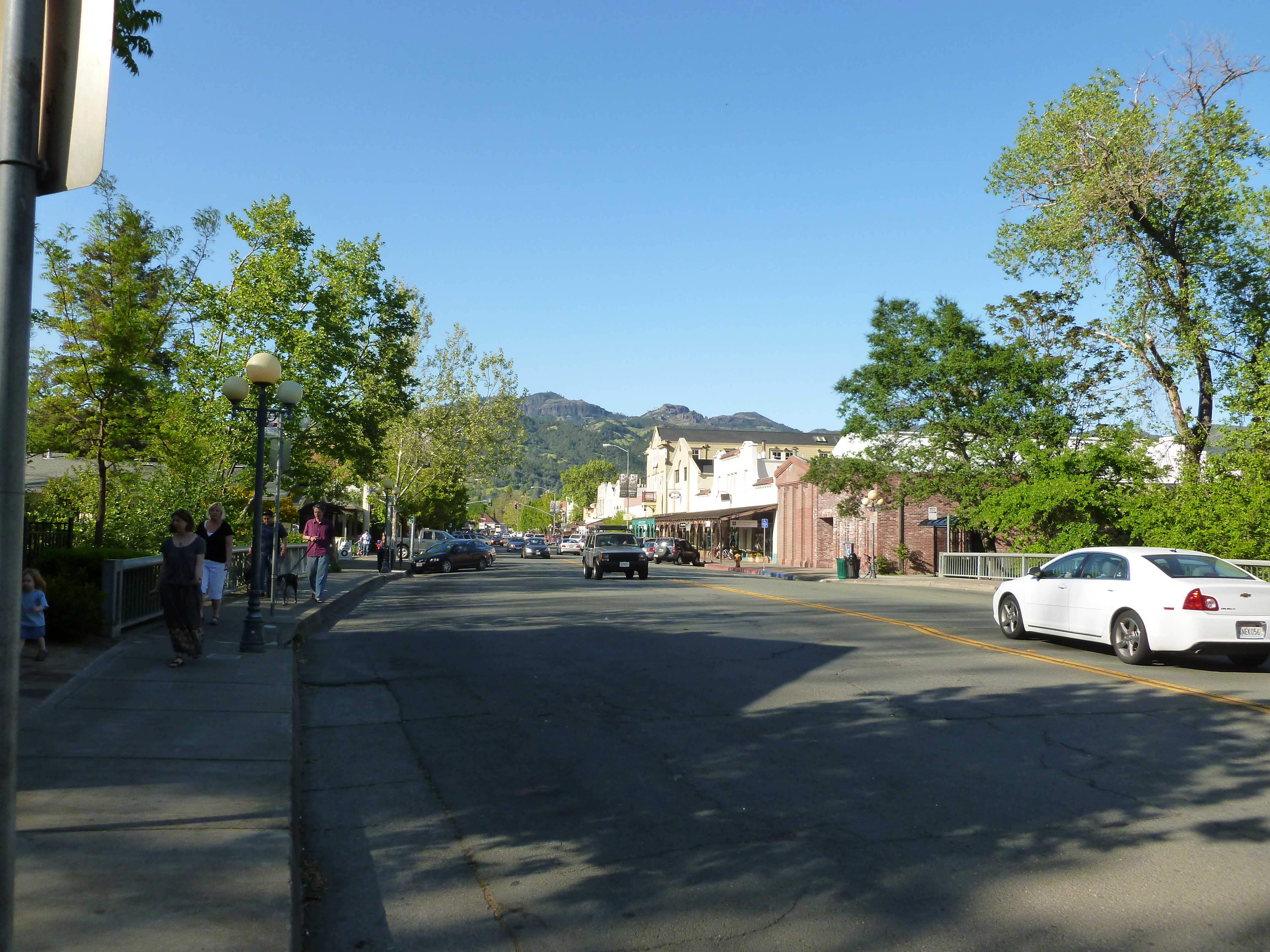 View of business store fronts and mountain background in Calistoga near 1277 Lincoln Avenue, looking north.